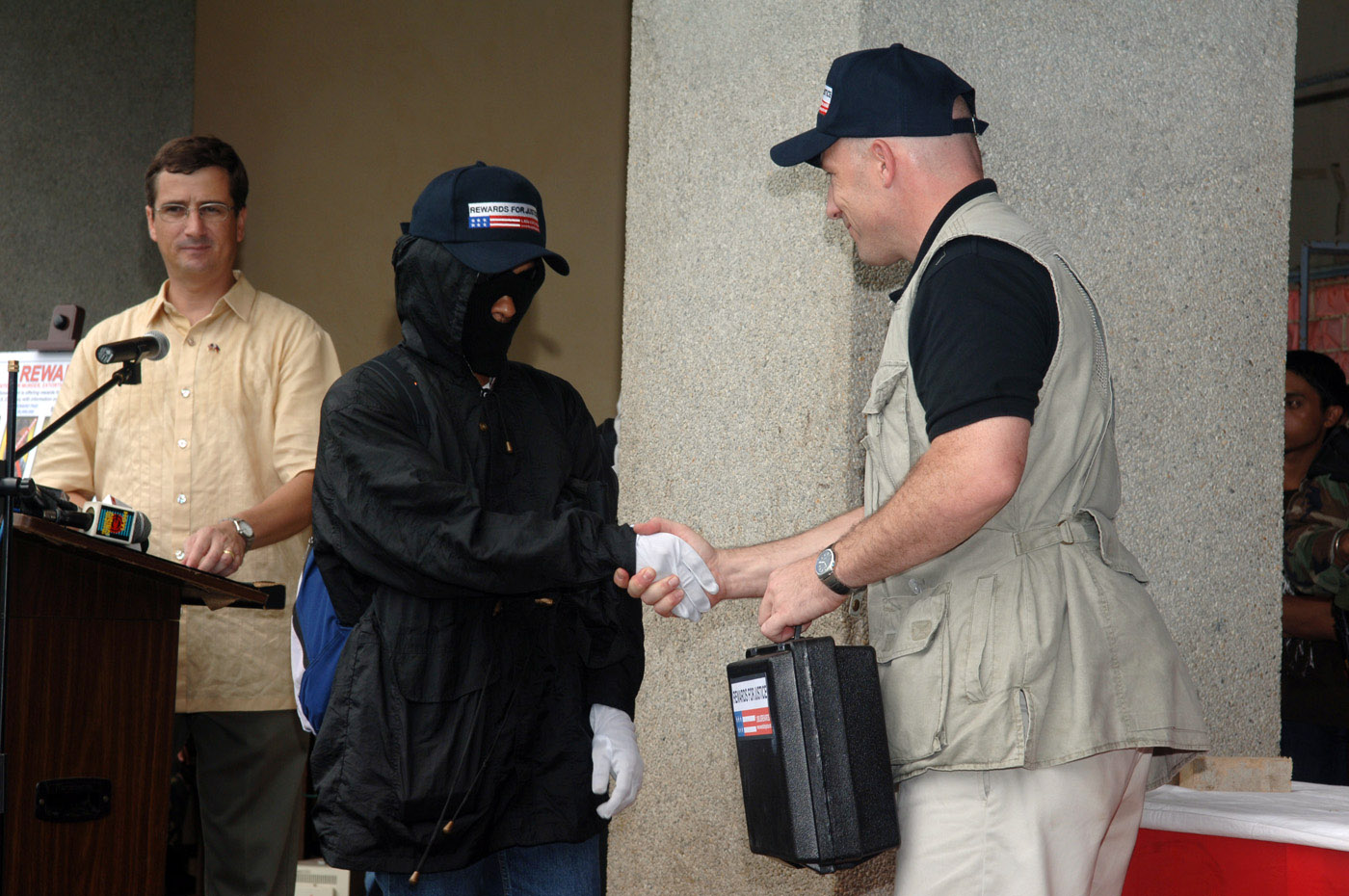 070607-N-8391L-084 JOLO, Republic of the Philippines (June 7, 2007) - A representative from the U.S. State Department congratulates and offers a partial payment to an informant, whose information led to the neutralization of a terrorist in the Republic of the Philippines. The reward, one of the largest paid out under the program, and the largest in the Philippines, was for the neutralization of Khadaffy Janjalani and Abu Solaiman, who were killed in separate offenses by the Armed Forces of the Philippines in separate raids. U.S. Navy photo by Mass Communication Specialist 1st Class Troy Latham (RELEASED)